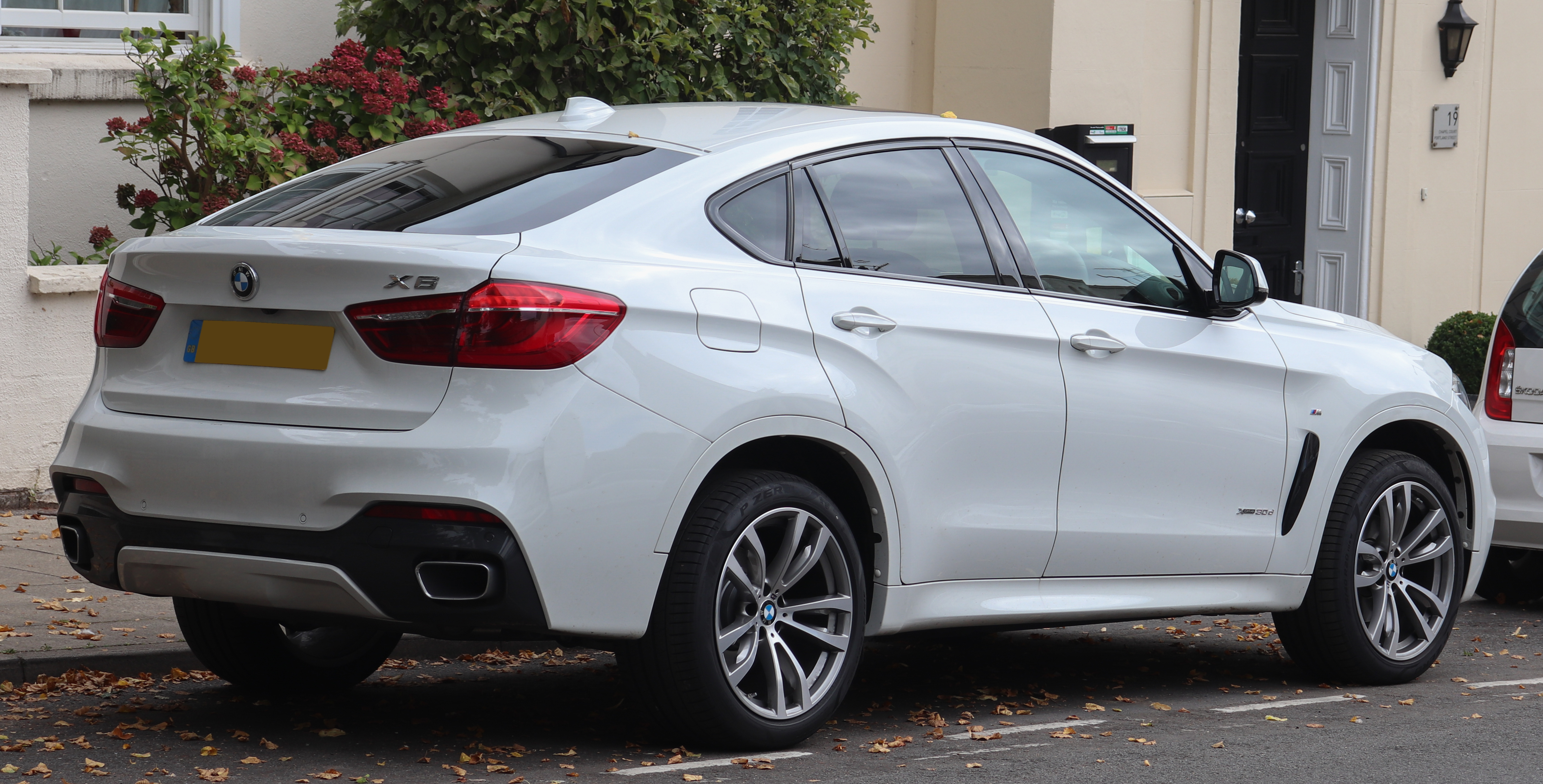 2018 BMW X6 xDrive30d M Sport Automatic 3.0 Rear Taken in Leamington Spa